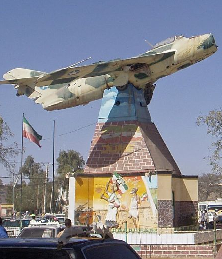 The Hargeisa Plane Monument in Hargeisa, the capital of the northwestern Somaliland region of Somalia.